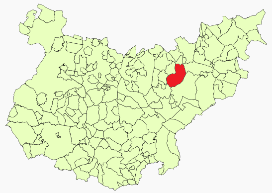 Campanario